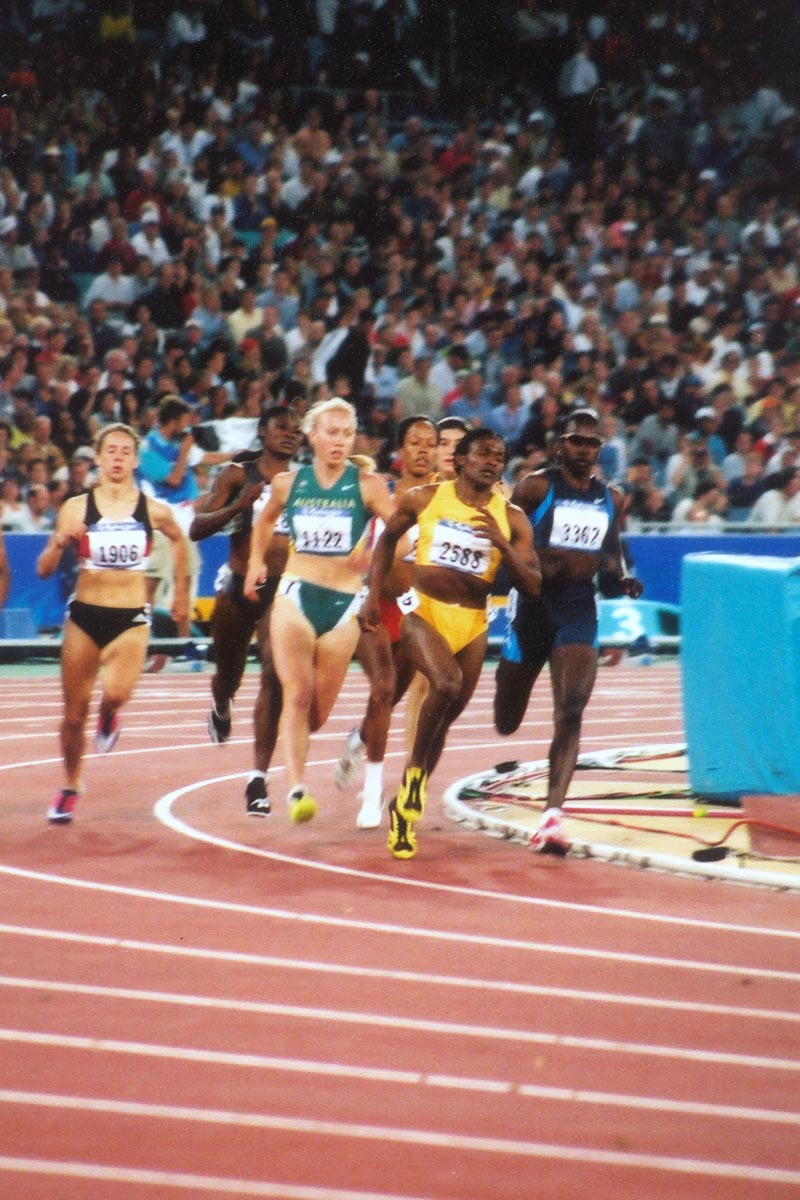 Olympic semifinal